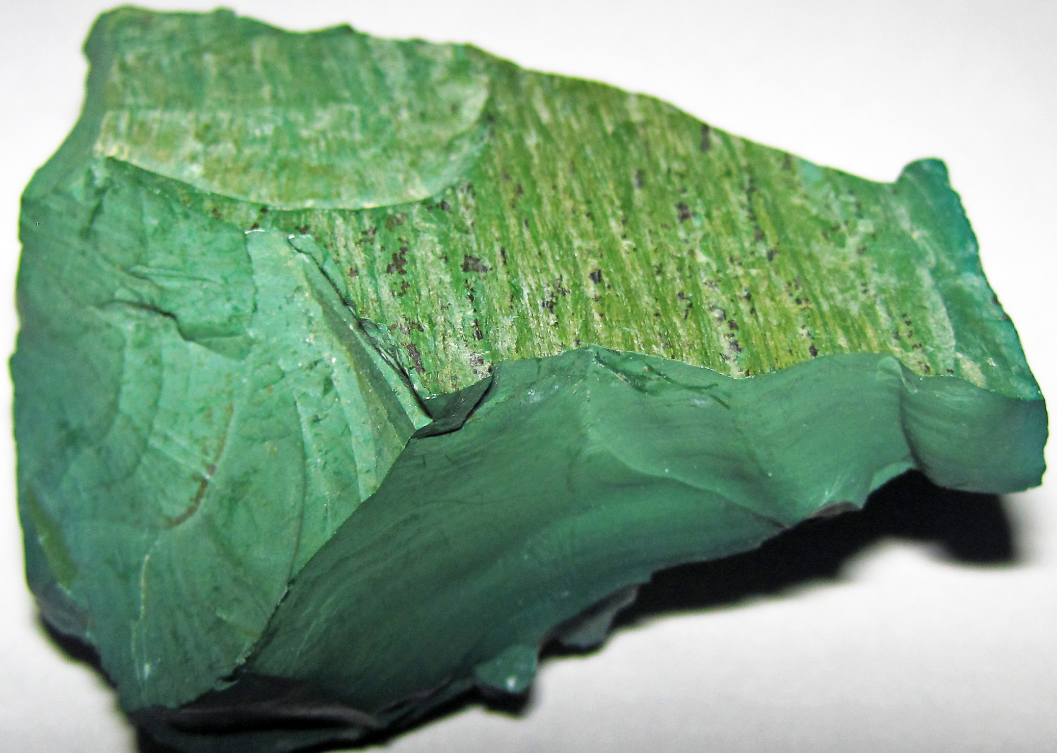 Volkonskoite-replaced fossil wood from the Permian of Russia. (4.2 cm across at its widest) This is a very rare specimen of fossil wood from Permian rocks in western Russia. Most fossil wood is preserved by quartz-permineralization or carbonization. This fossil wood has been replaced by a rare chromian smectite clay mineral called volkonskoite (Ca0.3(Cr,Mg,Fe)2(Si,Al)4O10 (OH)2⋅4H2O - hydrous calcium chromium magnesium iron hydroxy-aluminosilicate). The chromium (Cr) content gives the fossil its green coloration. The striations appear to be remnants of the original wood structure. The broken sides show that the massive, fine-grained volkonskoite breaks with a conchoidal fracture. Host rocks & age: soft fluvial sandstones, Kazanian to Tatarian Stages, upper Upper Permian Locality: Mt. Efimiatsk (Mt. Efimyatskaya), near the town of Efimyata, ~10 miles west of Votinsk Reservoir & ~30 miles southwest of Okhansk, Chastinsky District, southwestern Perm Region, western foothills of the southwestern Ural Mountains, western Russia